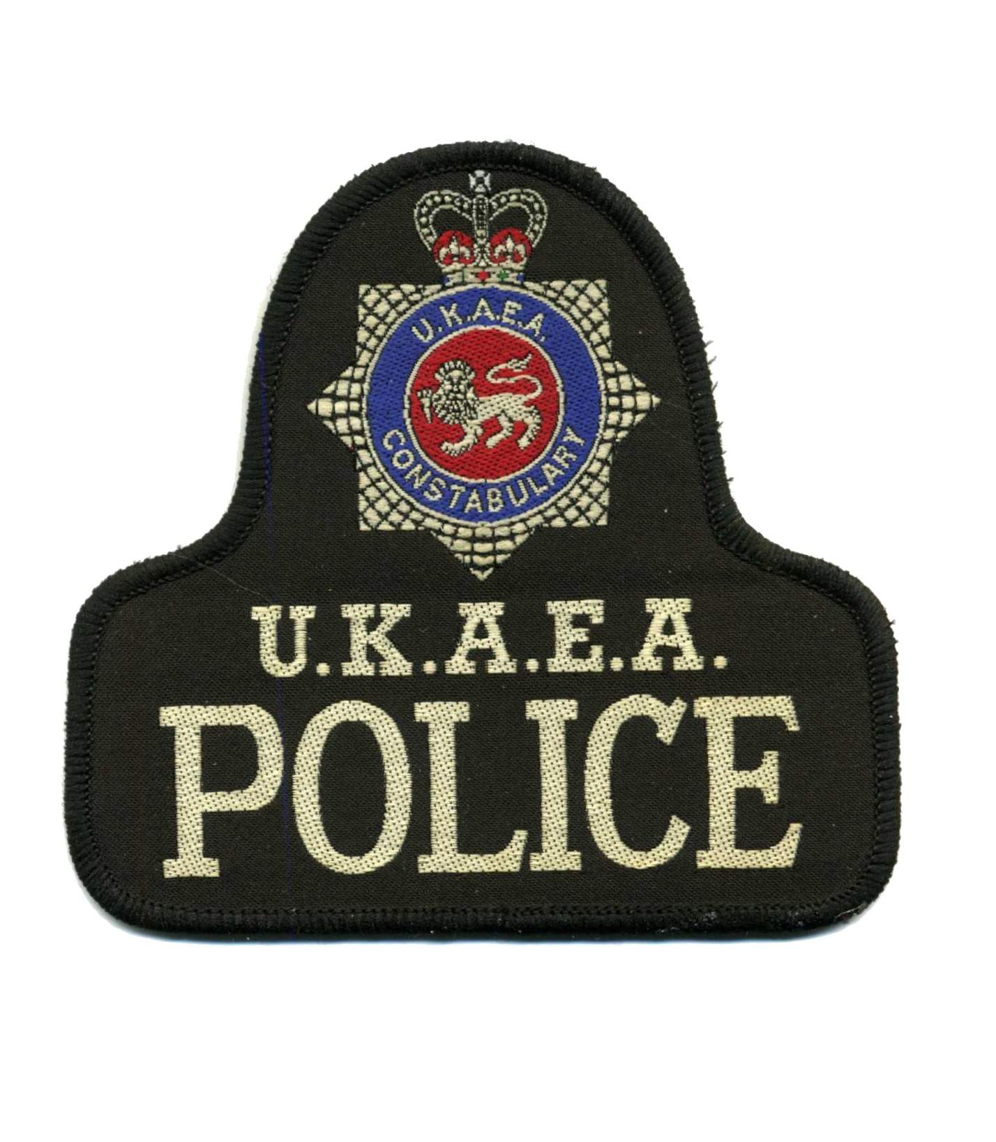 Part of my collection of SCOTTISH Police insignia UKAEA Constabulary in Scotland were based at Dounreay in Caithness and Chapelcross in Dumfriesshire. This agency is now defunct - having on 1st April 2005 been replaced by the Civil Nuclear Constabulary